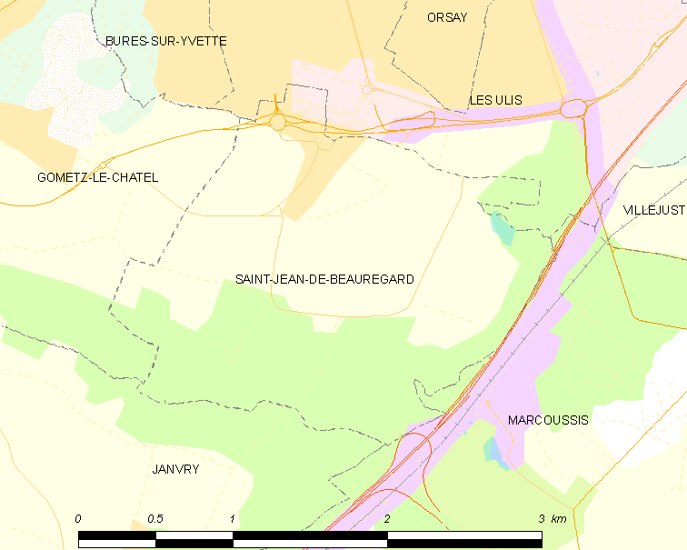 Map of French municipality Saint-Jean-de-Beauregard